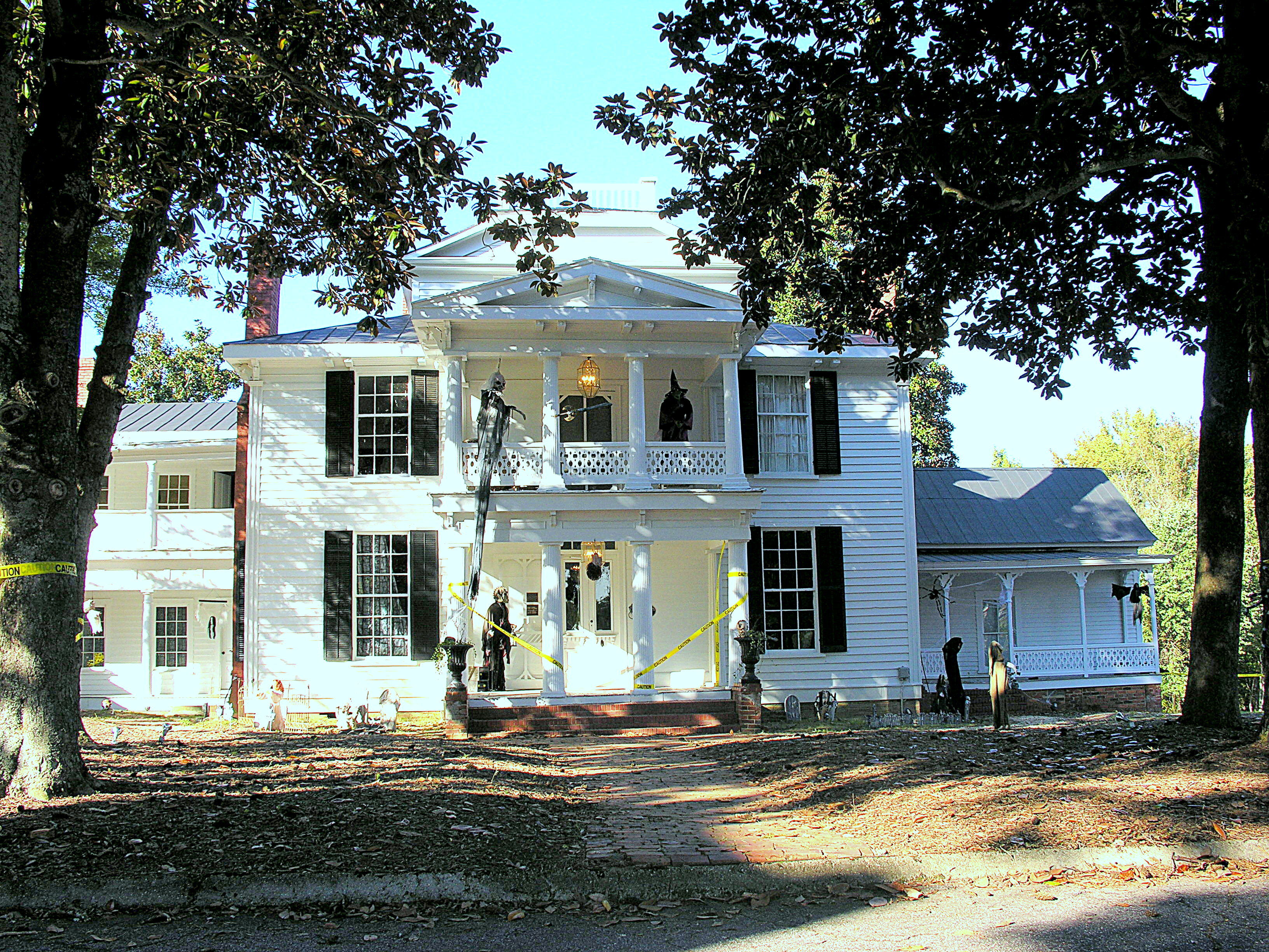 Leslie-Alford-Mims House, 100 Avent Ferry Rd. Holly Springs,NC Built in the early 1840's by Archibald Leslie. Added to in the late 1800s and l940s by the Alford and Mims families.